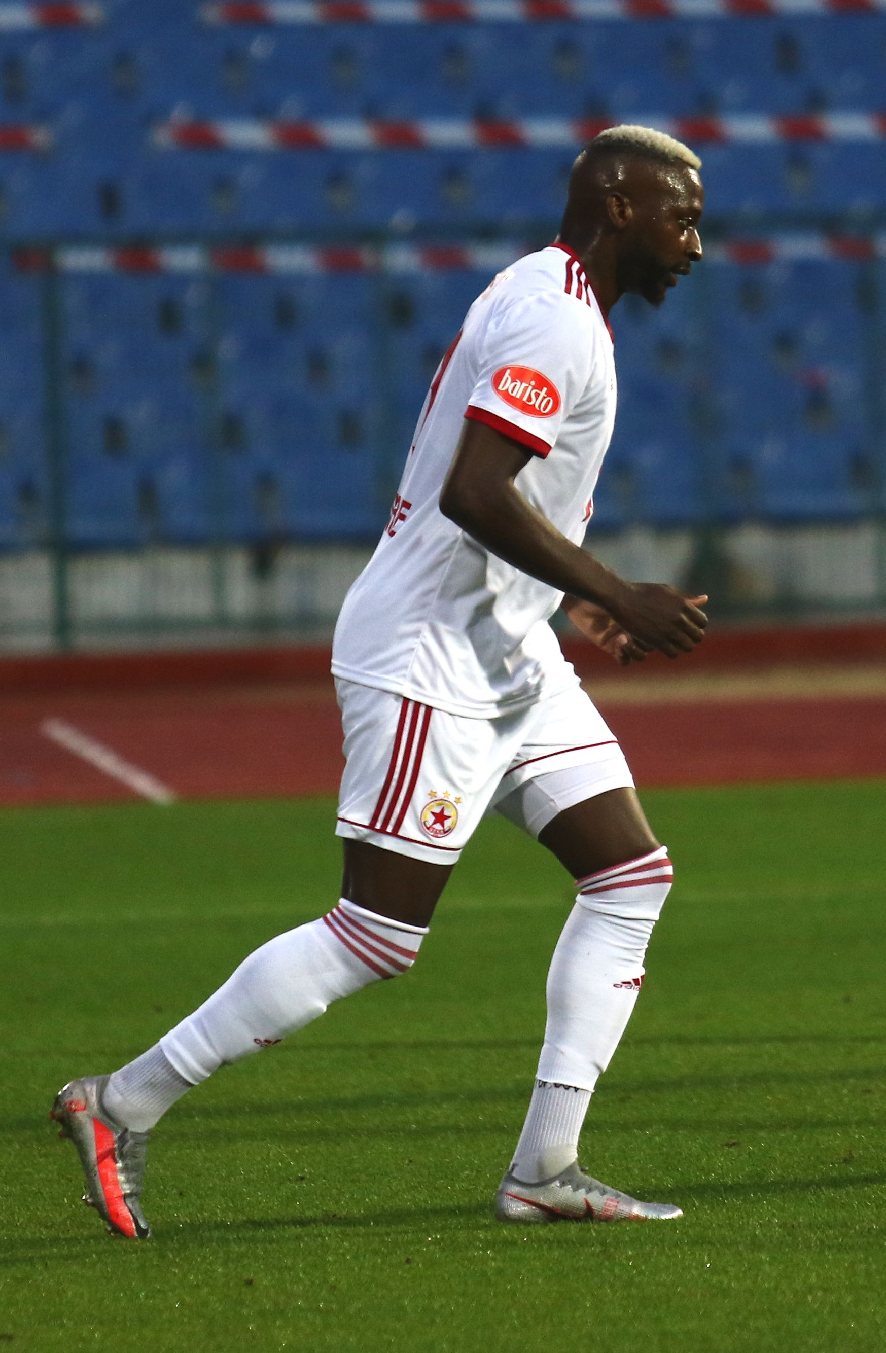 Younousse Sankharé (born 10 September 1989) is a Senegalese professional footballer. He plays as a left-sided midfielder, but also operates as a left back for Bulgarian club CSKA Sofia.